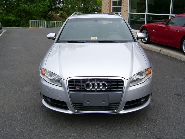 Audi B7 S4 Avant (North American)